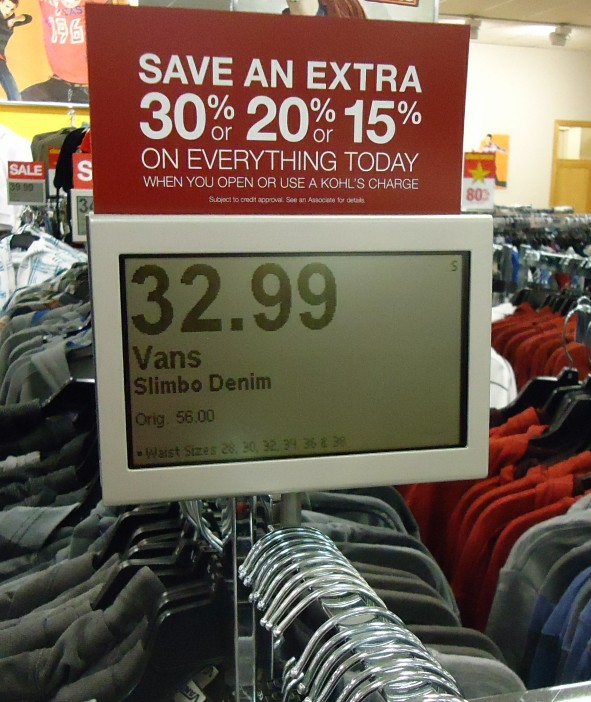 A price display in a clothing retail store. These displays mean that prices do not have to be manually adjusted by replacing a tag each time there is a change; rather, prices can be changed remotely by computer.